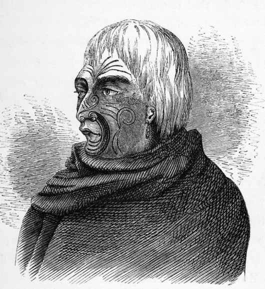 Shows head and shoulders portrait of the Ngati Toa chief Te Rauparaha with moko, earring, and wrapped in a blanket around the shoulders.